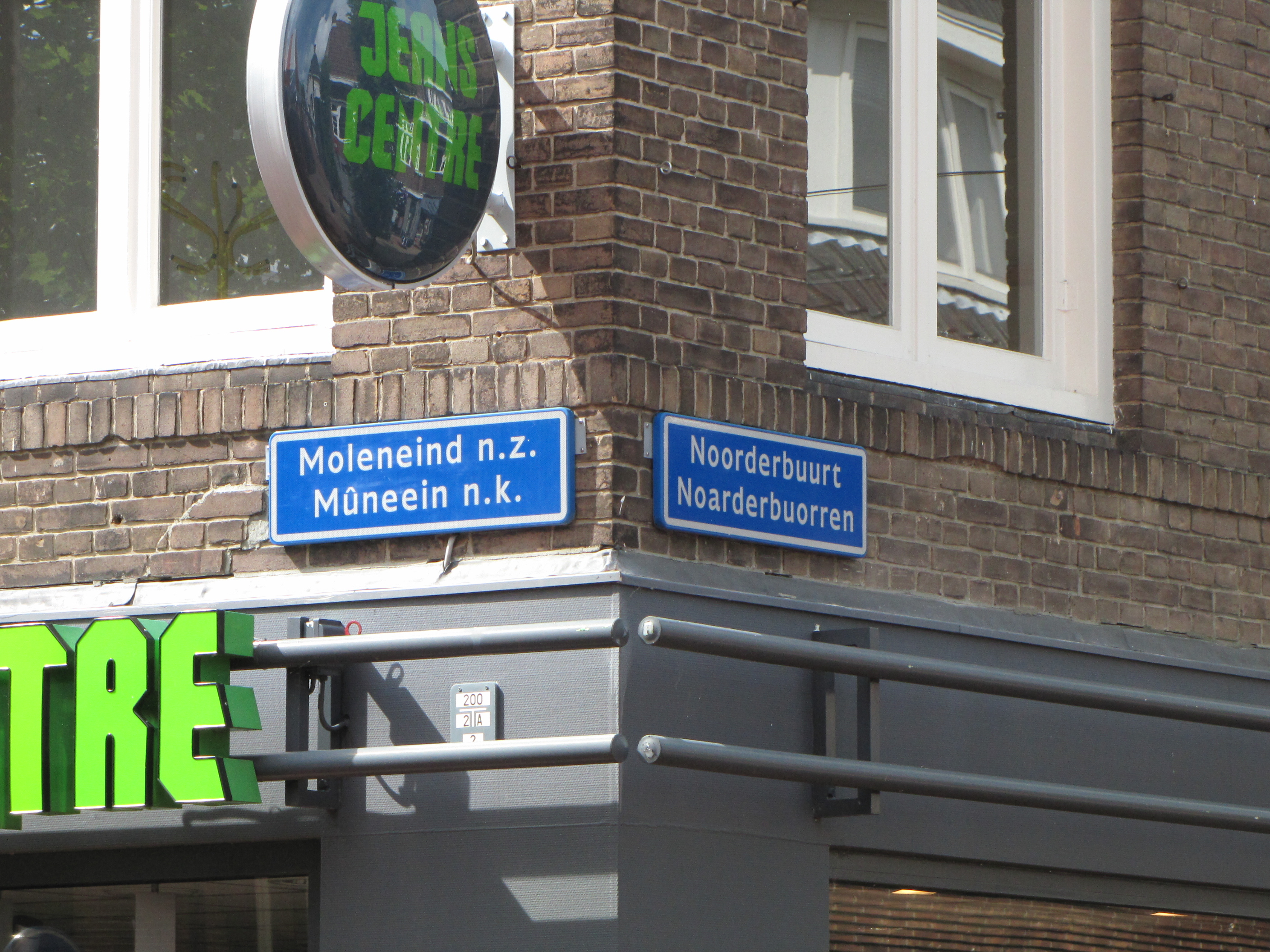 Street names in Drachten (Friesa), bilingual Dutch-Frisian